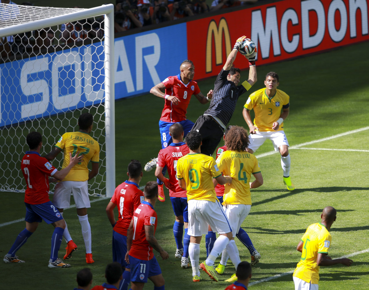 Brazil vs. Chile in Mineirão